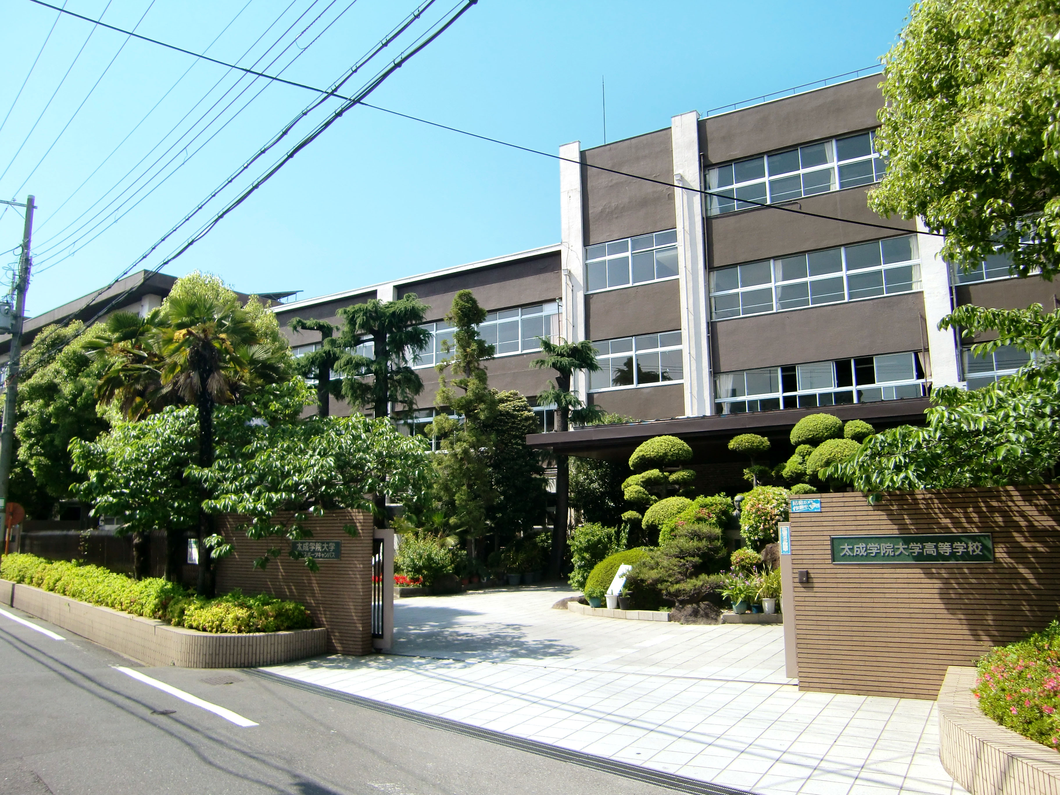 Taisei Gakuin University High School, 7-2-23 Morofuku Daito-City Osaka JAPAN.